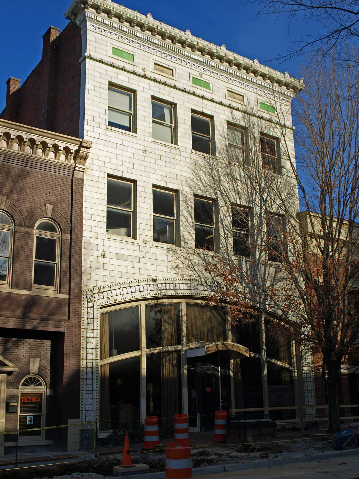 The May and Cooney Dry Goods Building in Huntsville, Alabama, listed on the National Register of Historic Places.